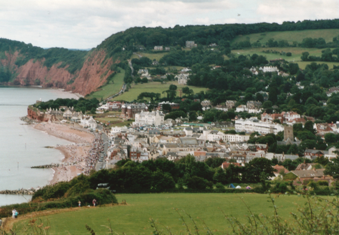 Sidmouth in Devon, England.